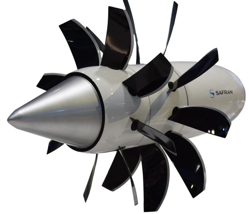 Safran open rotor mockup, Paris Air Show 2017, clean background